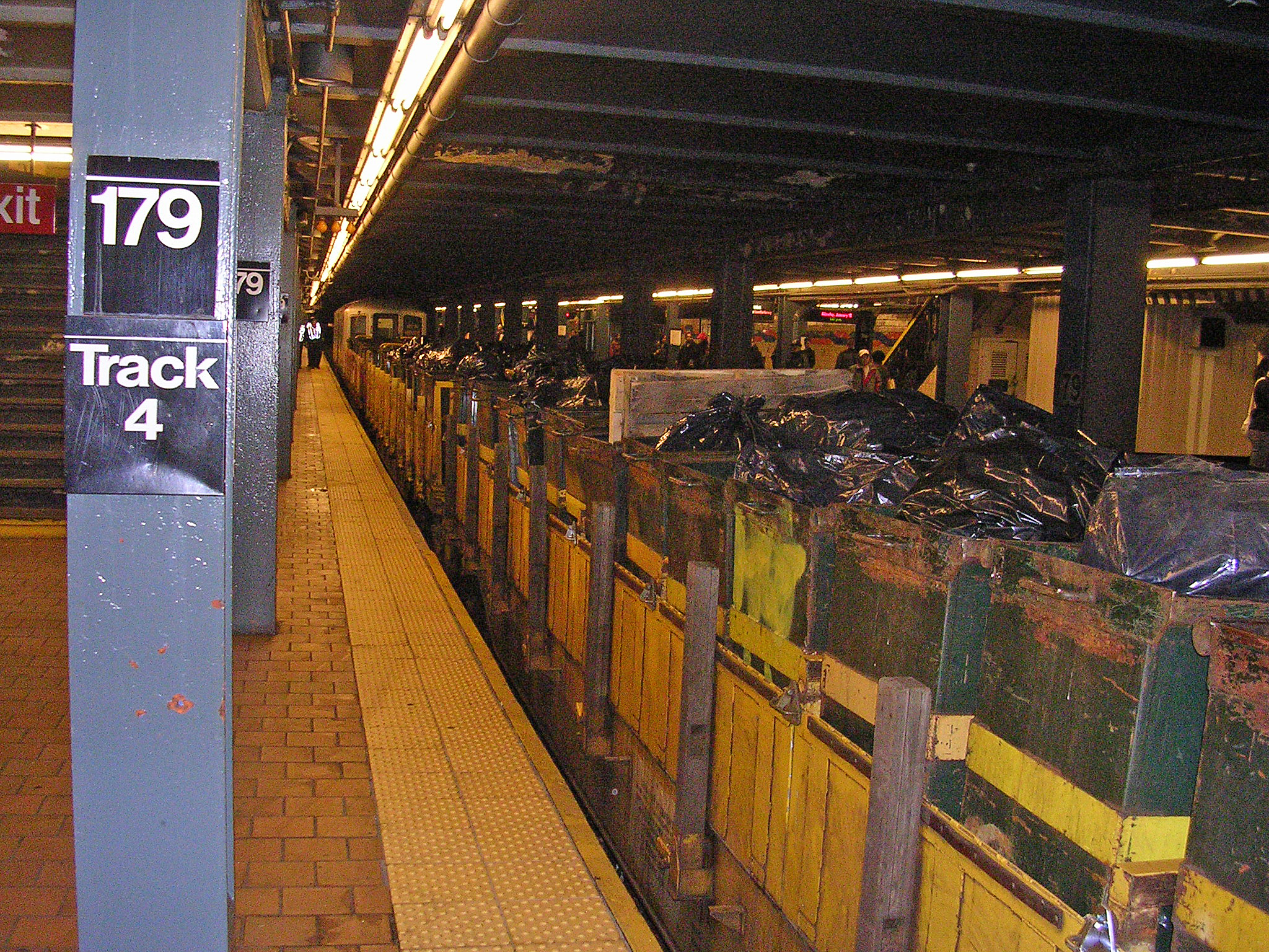 Waste transported in the New York City Subway. Jamaica–179th Street station (IND Queens Boulevard Line).